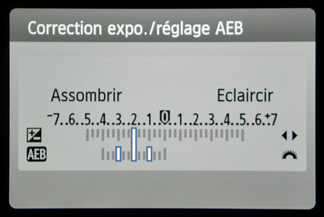 Setting Auto Exposure Bracketing (AEB), centered on an exposure of -2, and with a variation of +/-1. The camera (Canon 550D model) is configured to perform, in a single shot, three successive shots with those automatic exposures : -3, -2 and -1.